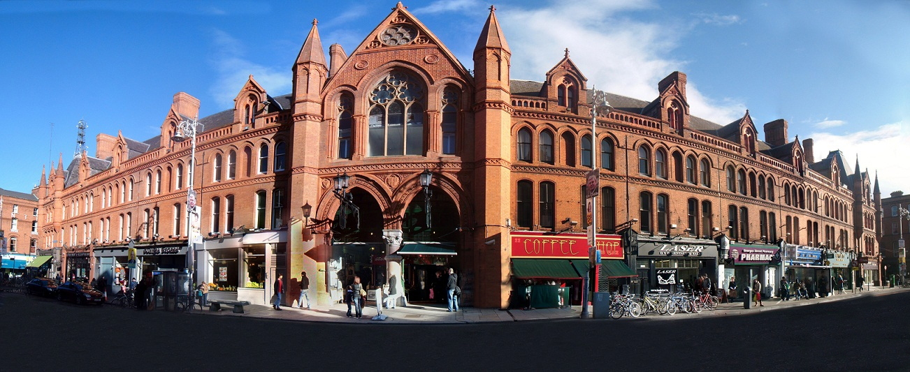 Georges St arcade Dublin opened in 1881